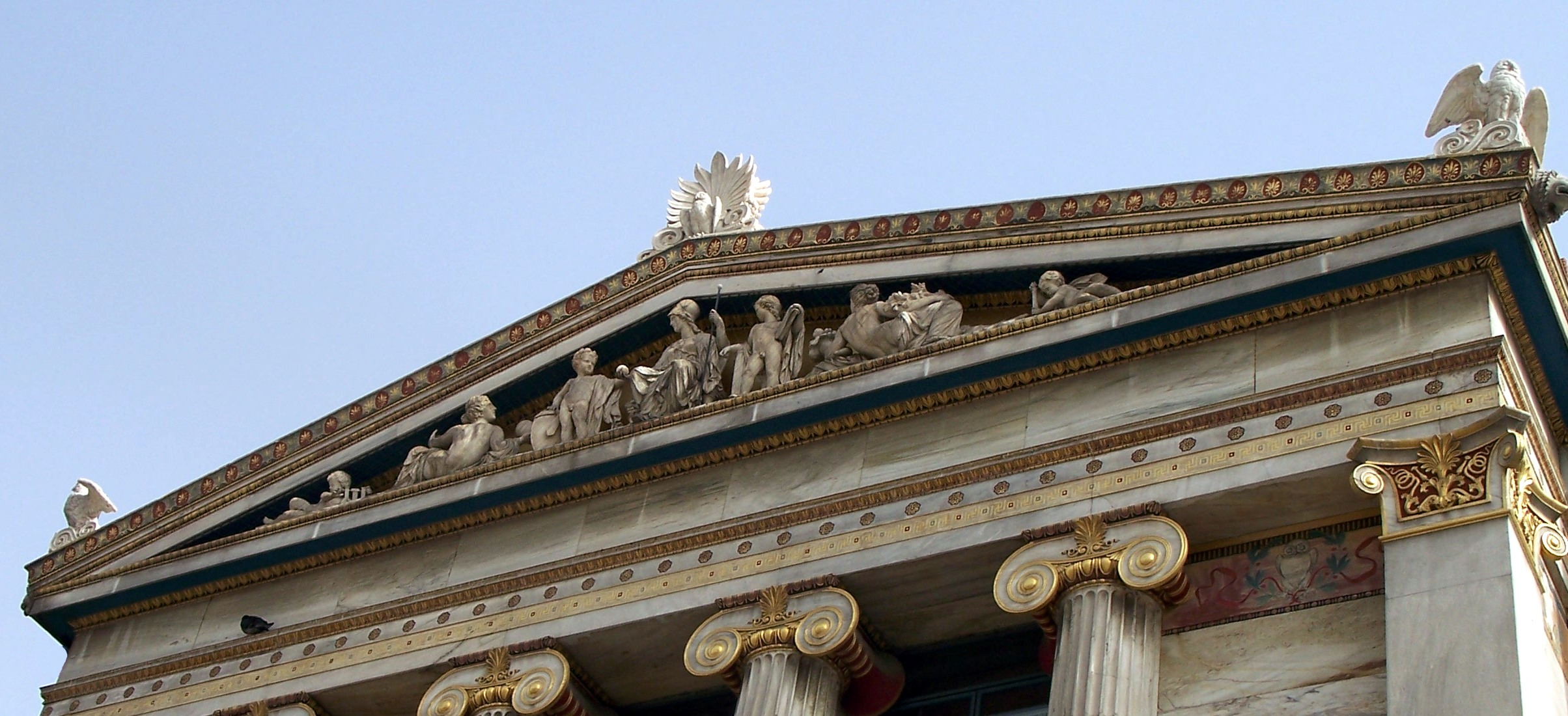 he Western pediment of the Academy of Athens.